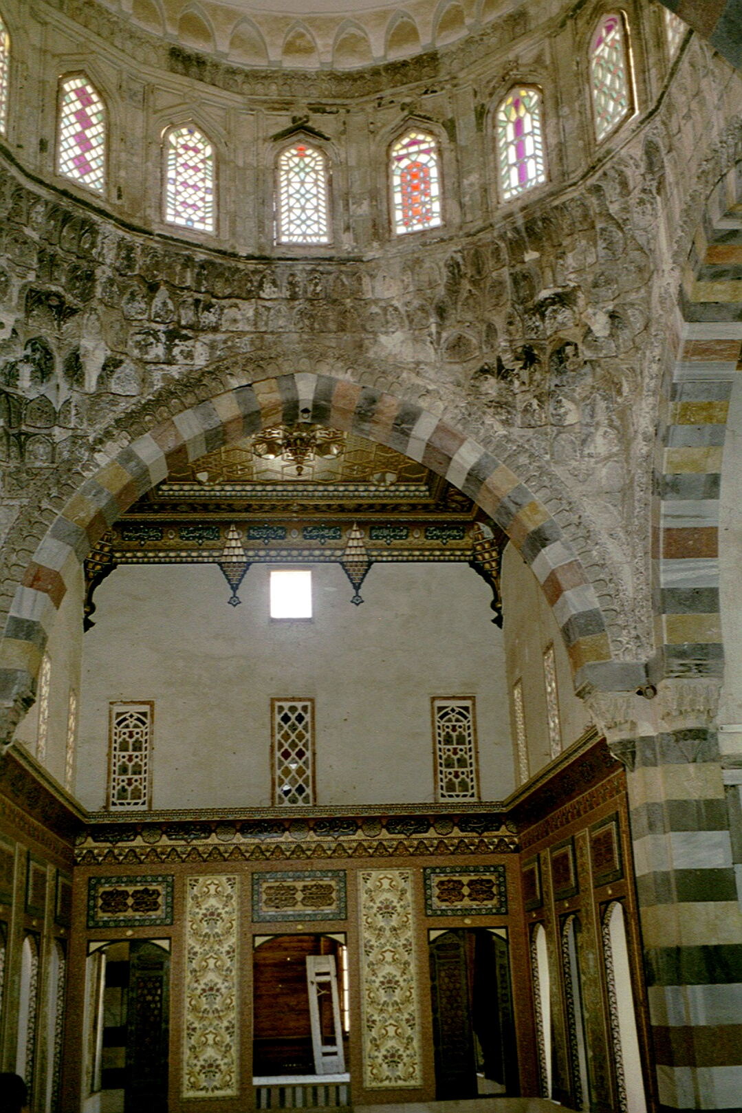 Part of the Al Azam Palace, in Hama, Syria. Picture taken by me in June, 2001, with an automatic Olympus mju:zoom140 camera.